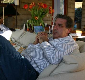 relaxing at a Change Congress retreat.